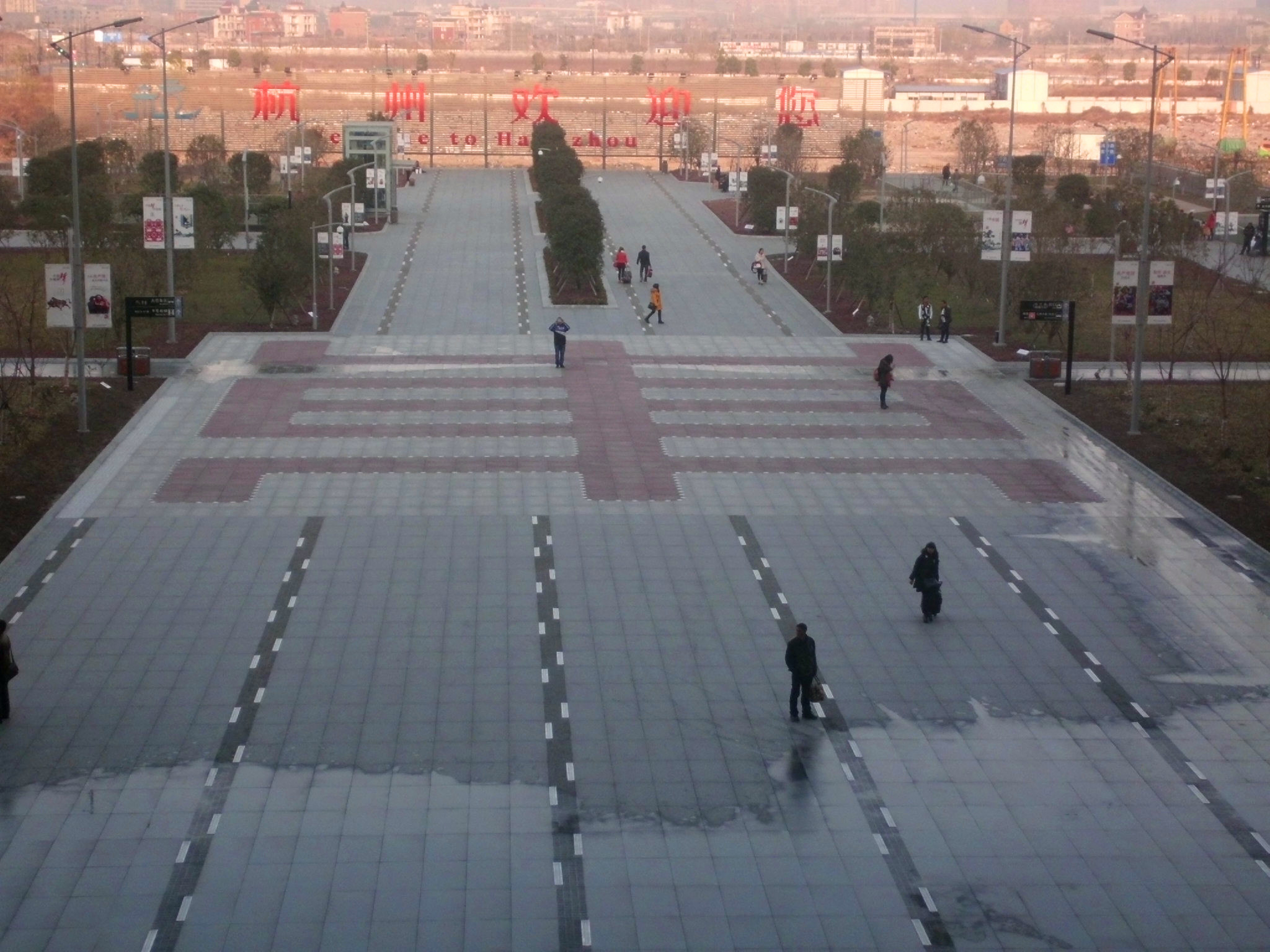 Hangzhoudong Railway Station